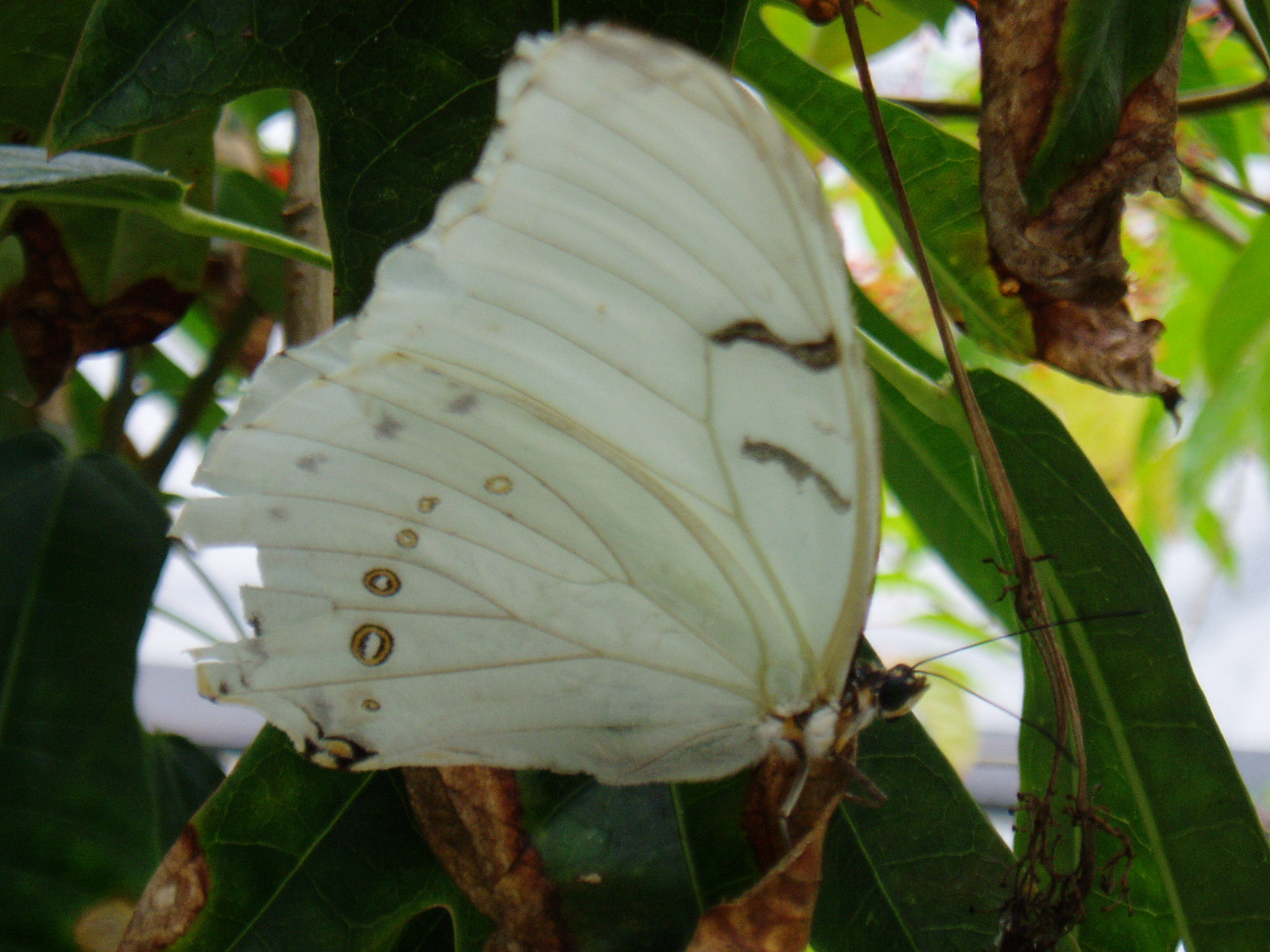 Image taken at Butterfly World Morpho polyphemus, White Morpho butterfly